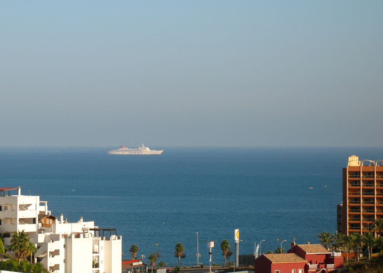 The Peace Boat off the cost of Spain, near Benalmádena.